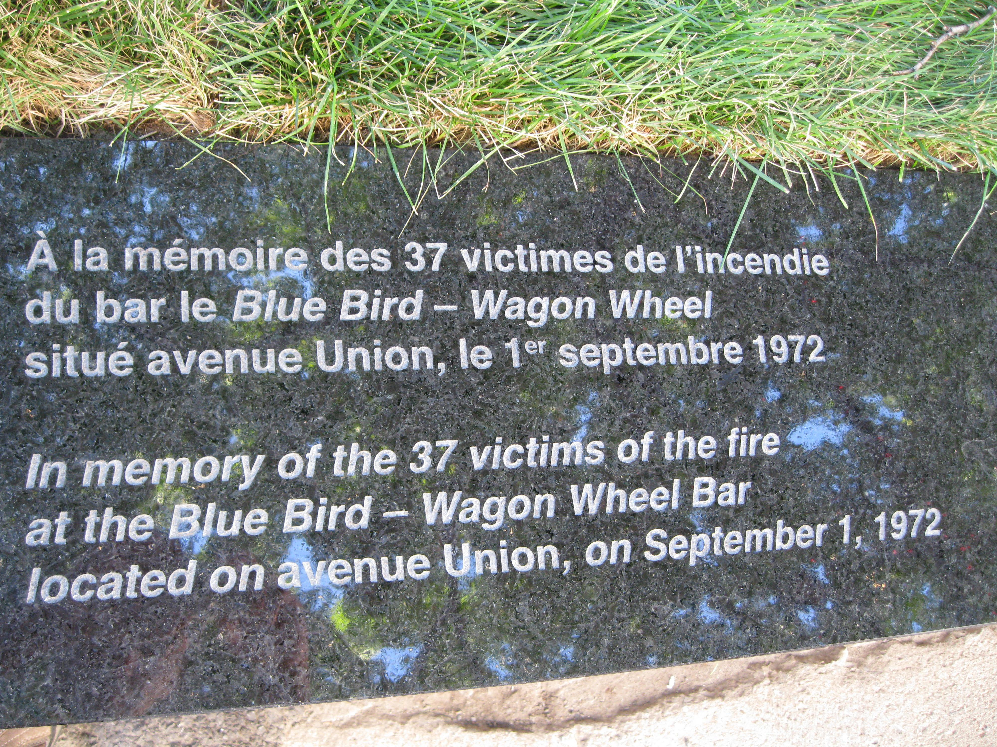 In memory of the 37 victims of the fire at the Blue Bird - Wagon Wheel Bar located on avenue Union, on september 1, 1972